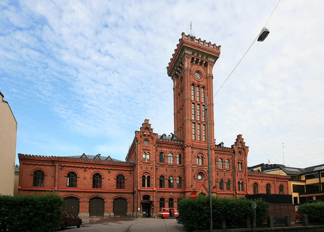 Erottaja fire station in Helsinki